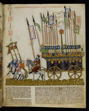 Breviculum ex artibus Raimundi Lulli electum - St. Peter perg. 92